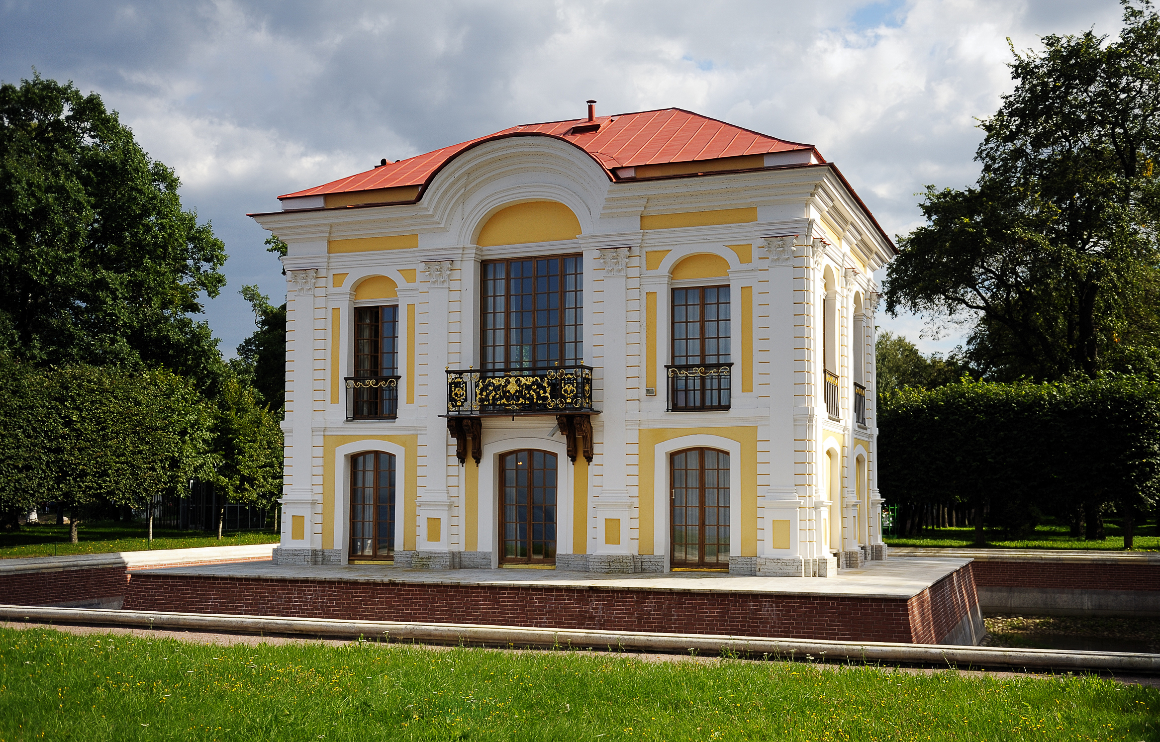 The Hermitage (Russia, Peterhof) was constructed in 1721-1725 according to the project of architect I.F.Braunstein. In 1756-1757 the masters working for B.F.Rastrelli made restoration of decorative details, and B.F.Rastrelli magnificently decorated the upper hall of the Hermitage. In 1941–1944 Hermitage it was damaged during the Great Patriotic War. In 1952 after the partial restoration it was open for visitors.